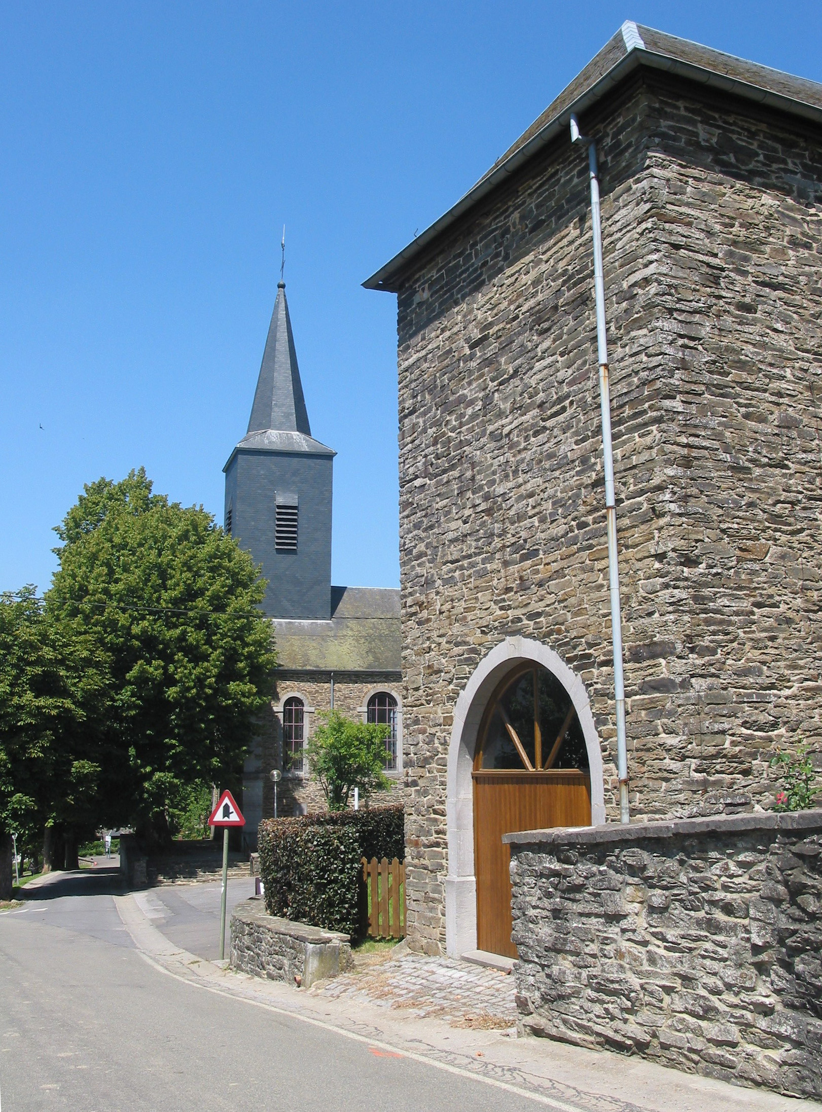 Daverdisse, Belgium: neighbourhood of the church.